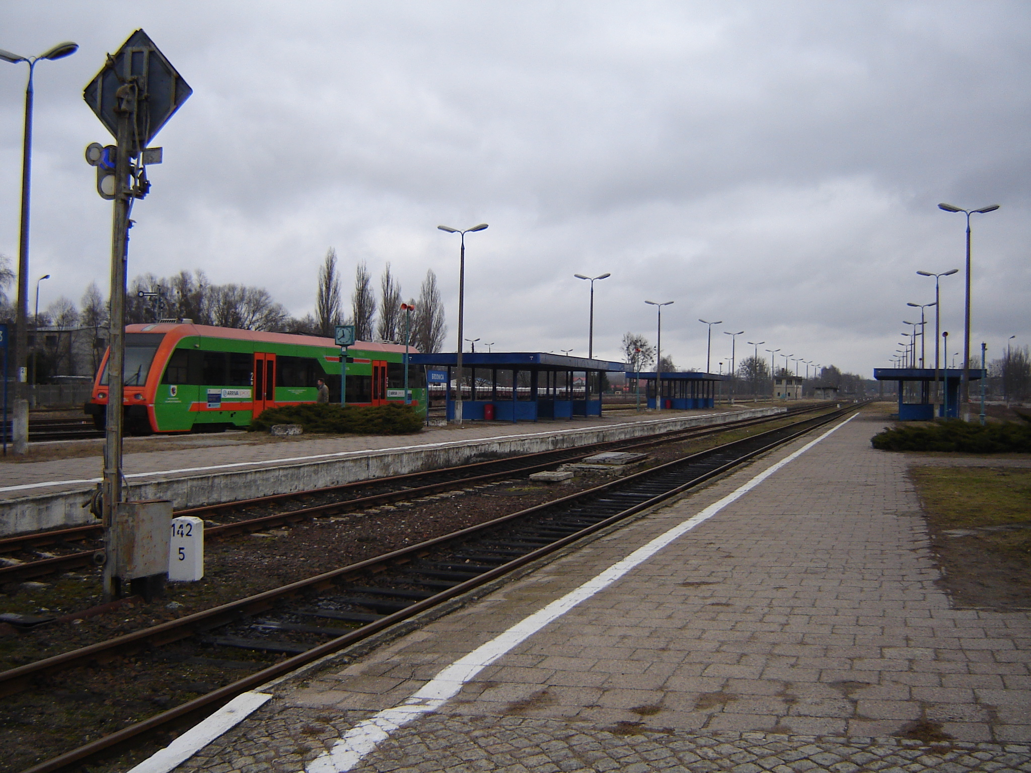 Brodnica train station.